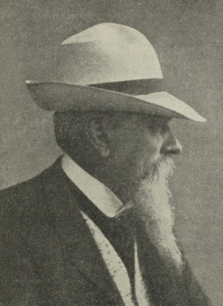 Arnold Mocsigay (1840–1911), German photographer of Hungarian origin.